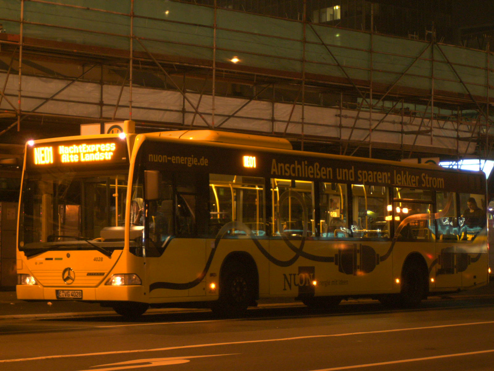 Night express line NE1 at the Essen main station. Bus stop relocated durig constructions of the main station hall and the places around